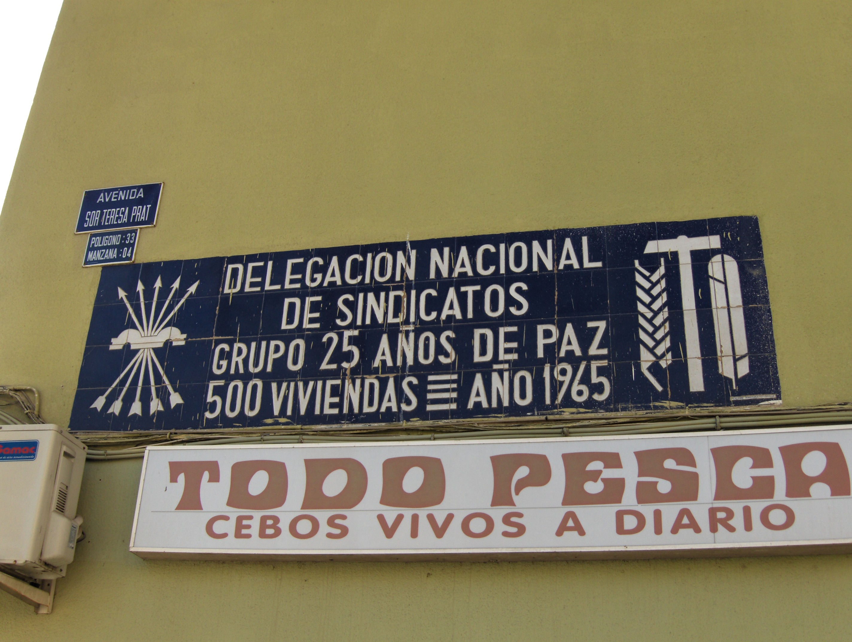 Fascist plaque in a street of the neighbourhood 25 Años de Paz (25 Years of Peace) in Málaga, Spain.